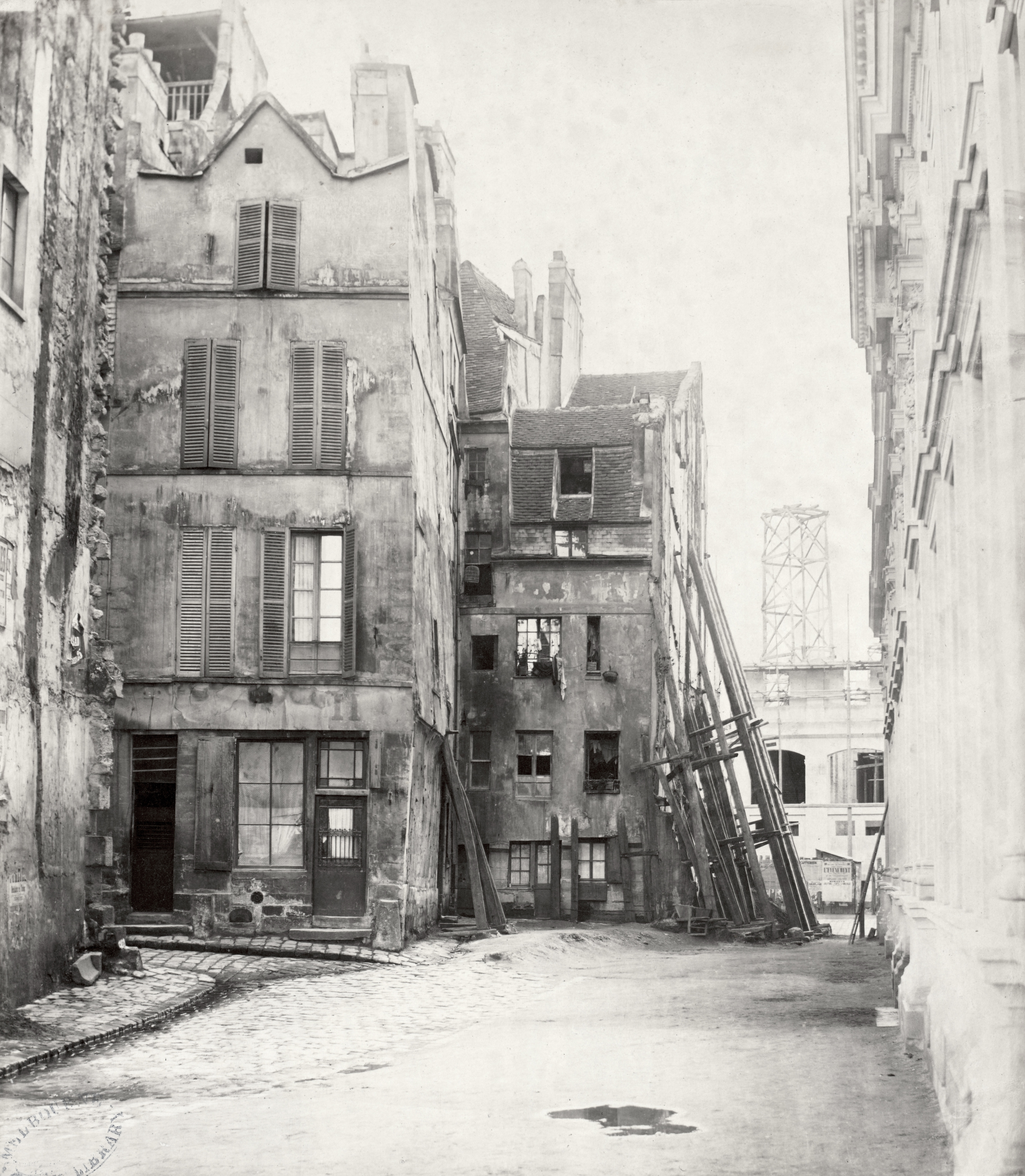 Looking along narrow street towards old and derelict buildings, wooden beams and scaffolding propped against wall.